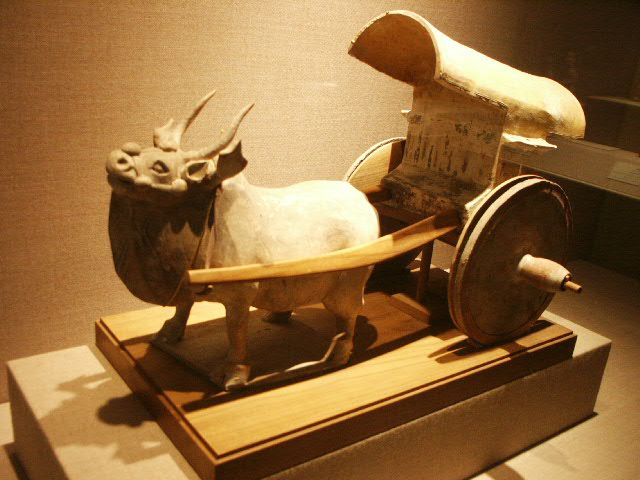 A ceramic model of an ox and ox-drawn cart, from the Chinese Han Dynasty (202 BC – 220 AD)